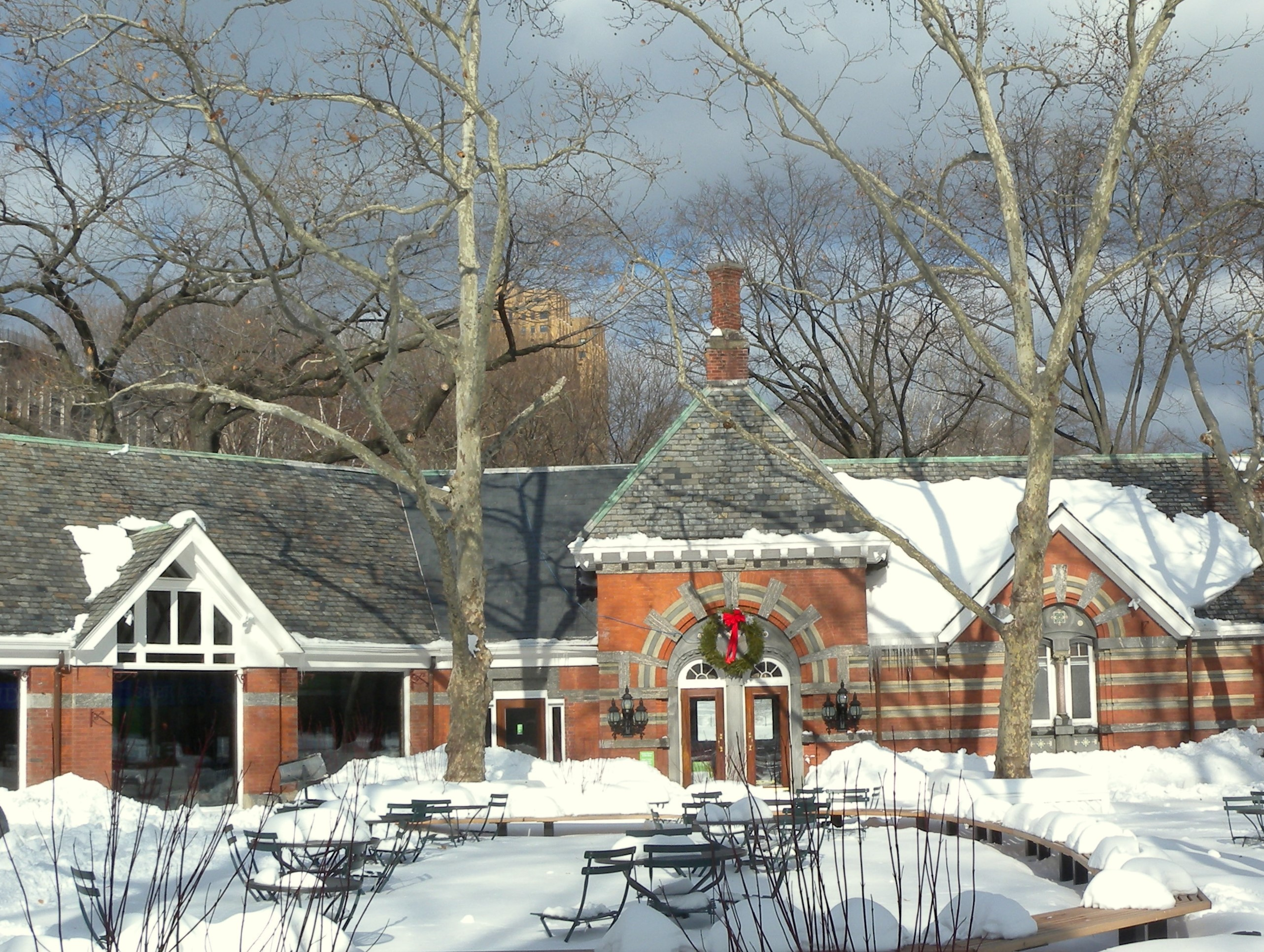 Looking north in courtyard of Tavern on the Green on a sunny midday after snowstorm.